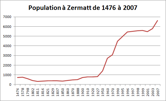 Evolution of population in Zermatt between 1476 and 2007